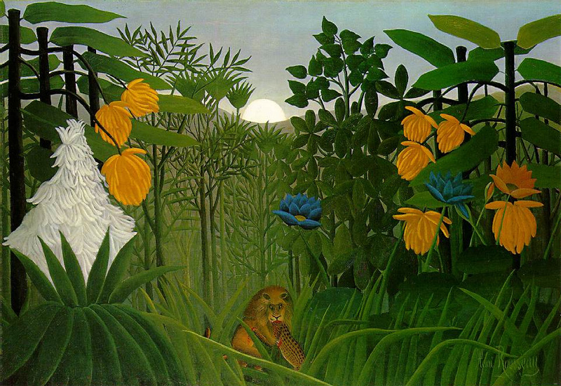 The Repast of the Lion, ca. 1907 Henri-Julien-Félix Rousseau (le Douanier) (French, 1844–1910) Oil on canvas; 44 3/4 x 63 in. (113.7 x 160 cm) Bequest of Sam A. Lewisohn, 1951 (51.112.5) Metropolitan Museum Of Art, New York In compliance with 's copyright terms and conditions. Imagine:Rousseau theRepastOfTheLion.jpg